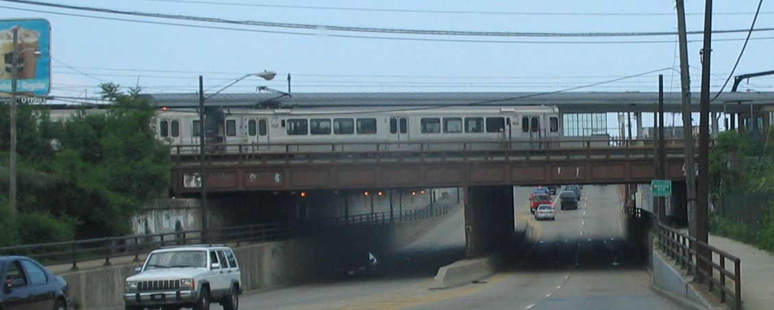 West 117th Station on the Red Line of Cleveland RTA Rapid Transit